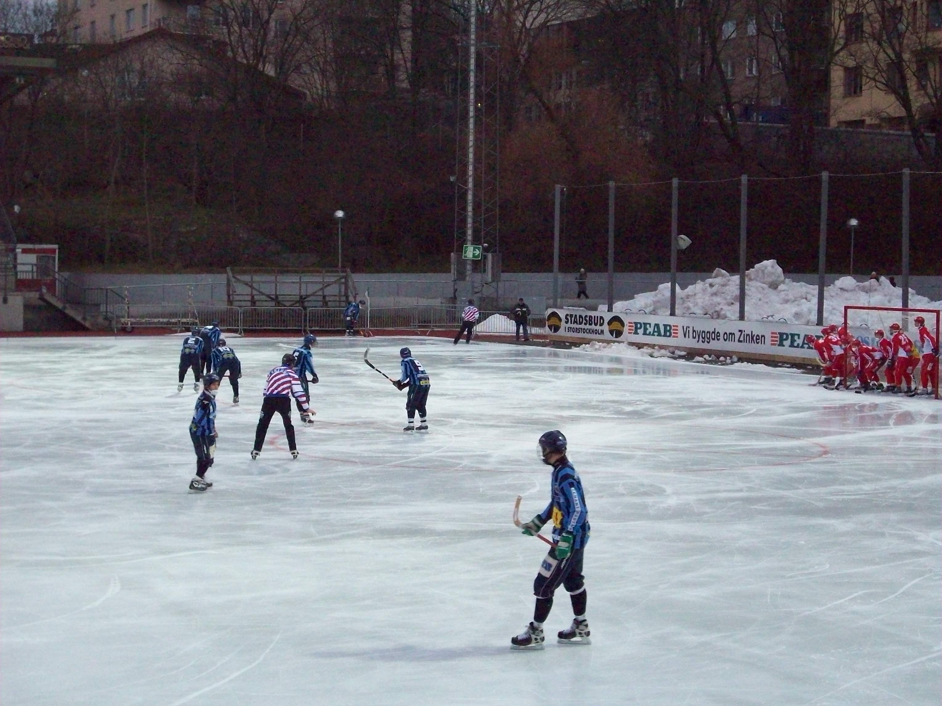 Zinkensdamms IP. A corner situation during the match between Djurgårdens IF and Gustavsberg.